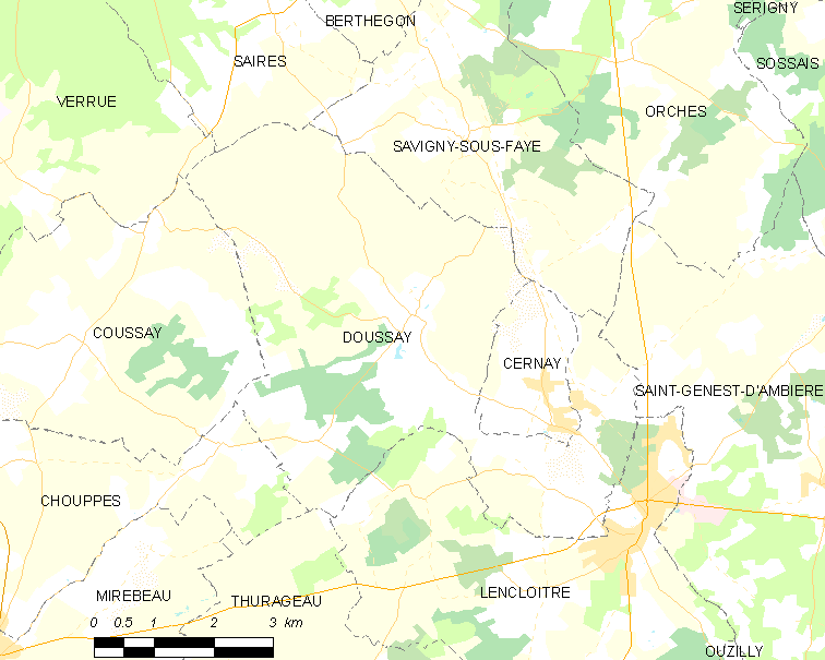 Map of French municipality Doussay